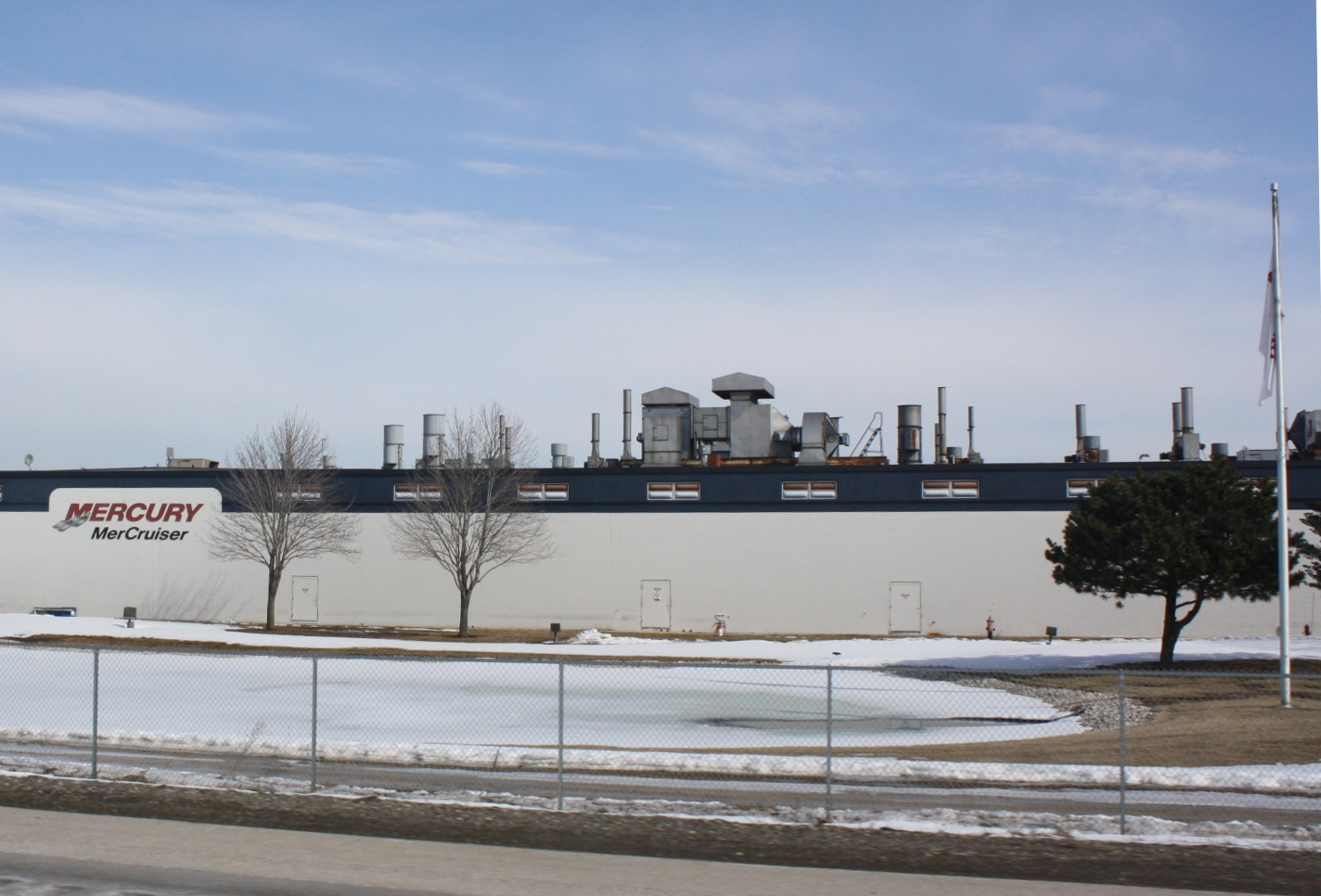 The headquarters for Mercury Marine in Fond du Lac, Wisconsin along U.S. Route 41.